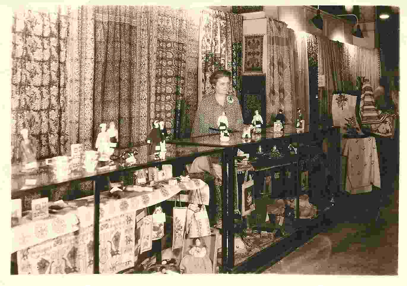 Mrs. Duryea holds a sale for the Near East Relief Foundation. Goods were made in the Near East by people involved with and helped by the Bear East Relief Foundation.